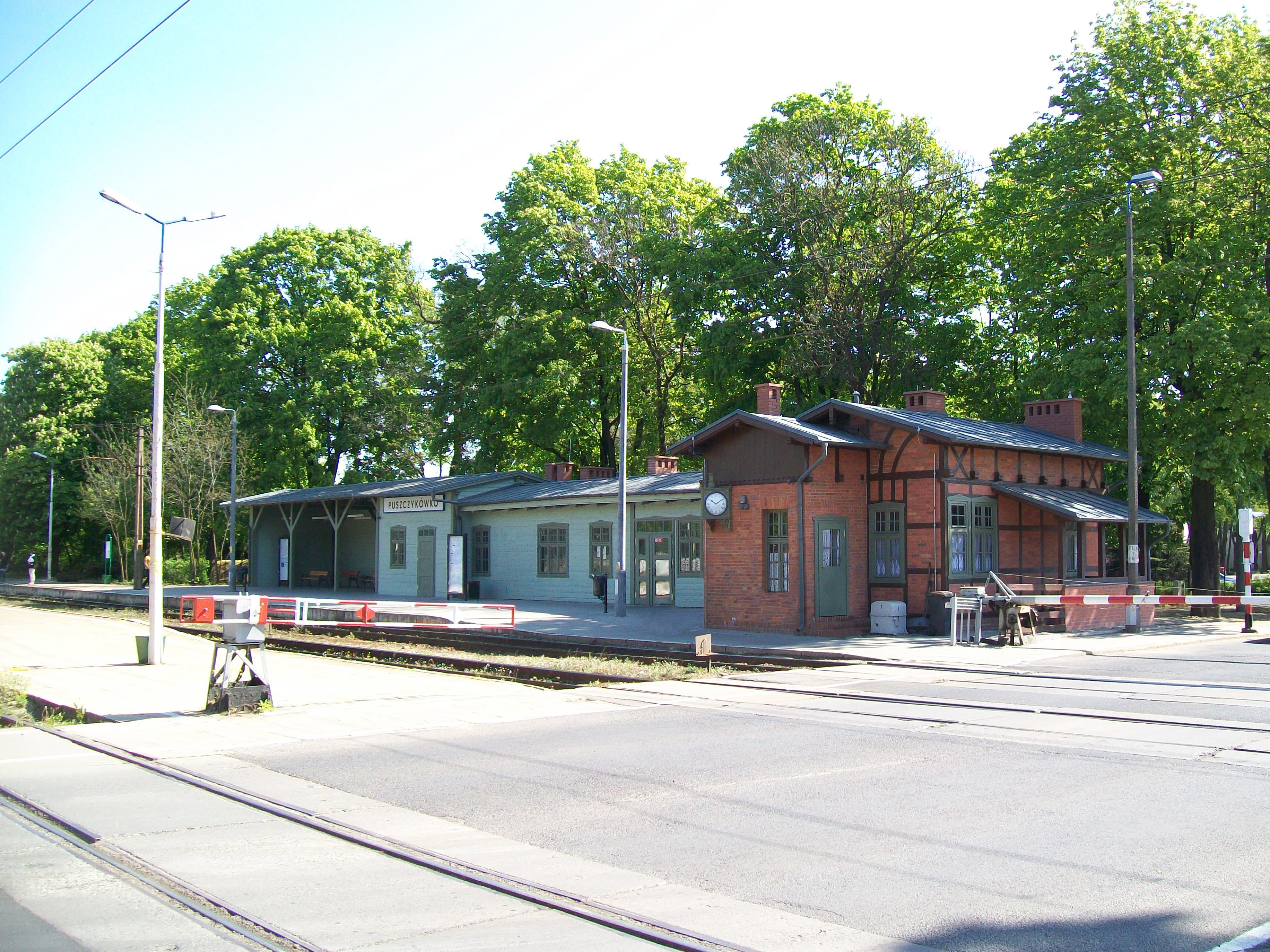 Railway station building in Puszczykówko in Poland